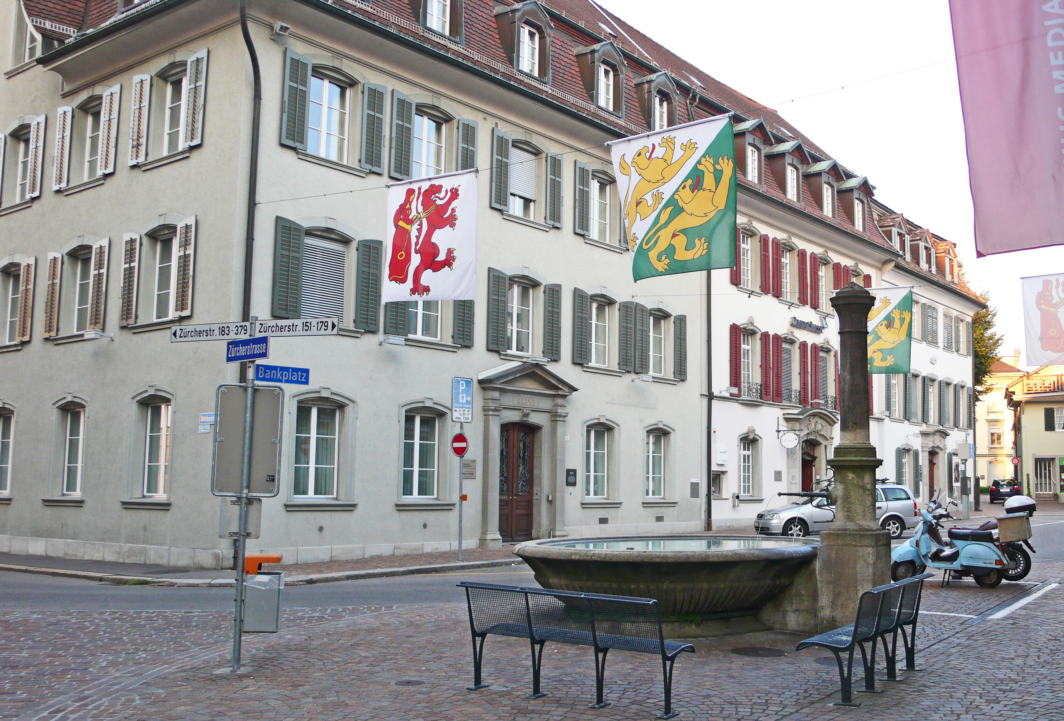 Bankplatz in Frauenfeld, Switzerland